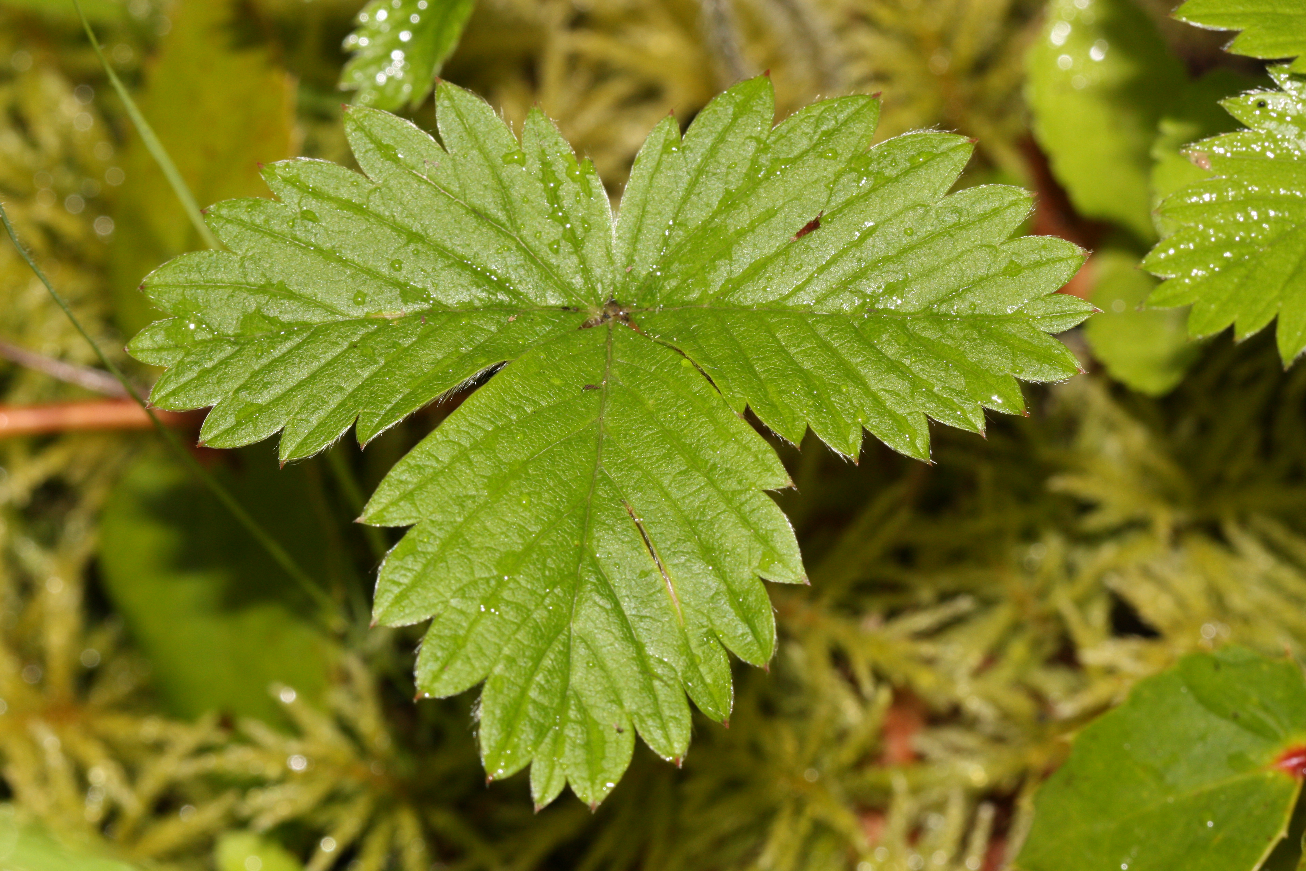 Woodland Strawberry, Wood Strawberry